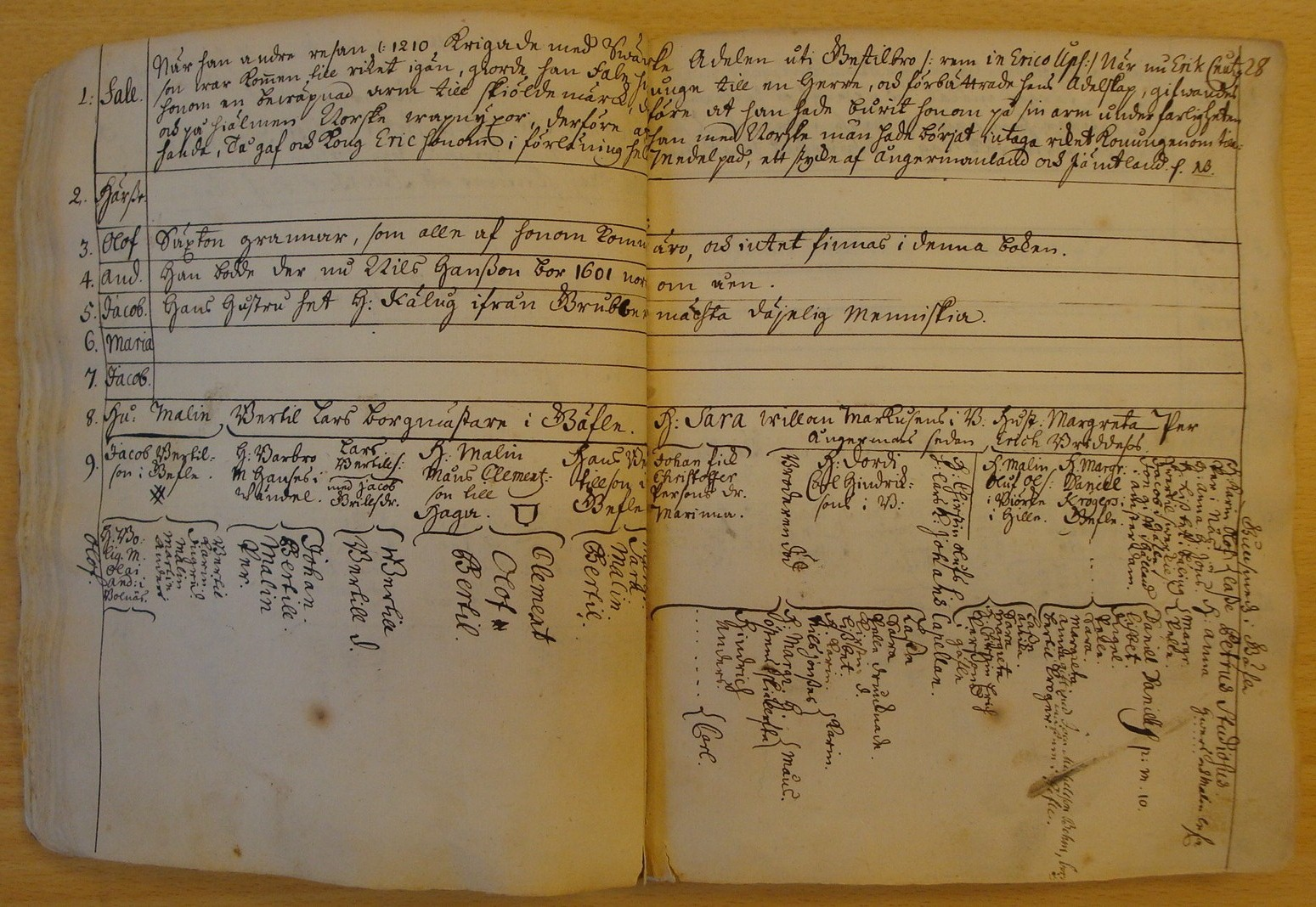 Two of the pages in the X37 copy of Johan Bure's pedigree codex for the so-called Bureätten (Bure family). The pages show the descendants of Jakob Andersson (Grubb).